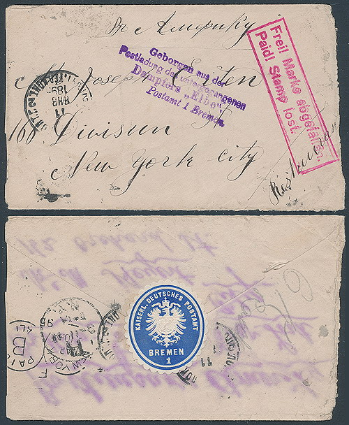 Crash cover of the Russian Empire salvaged from the sunk SS Elbe in 1895. Purple stamp: "Recovered from the mail load of the sunken steamer Elbe", seal on back: "Imperial German Post Office, Bremen 1"